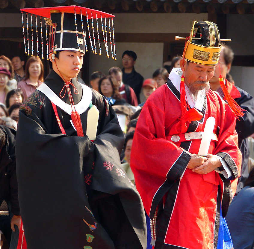 Royal Wedding Ceremony. Reenactment of King Gojong and Empress Myeongseong’s (Queen Min) Royal Wedding Ceremony that took place on the grounds of Unhyeon Palace on March 21, 1866. Unhyeon Palace (운현궁) is the former Korean royal residence of Prince Regent Daewon-gun, ruler of Korea during the Joseon Dynasty in the 19th century, and father of Emperor Gojong. This reenactment takes place in the spring and fall each year.